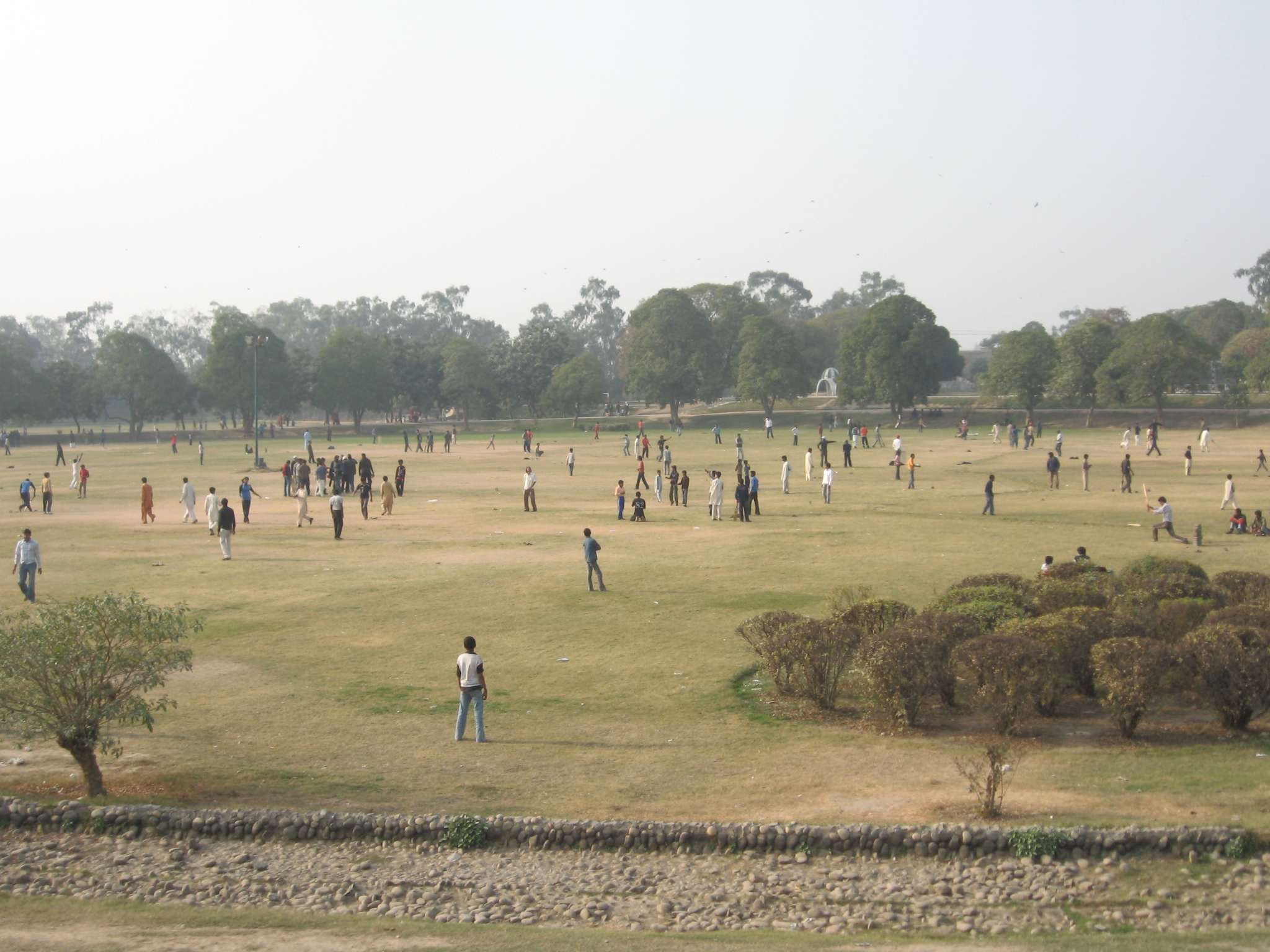 A view of Gulshan-e-Iqbal Park, Lahore, Pakistan